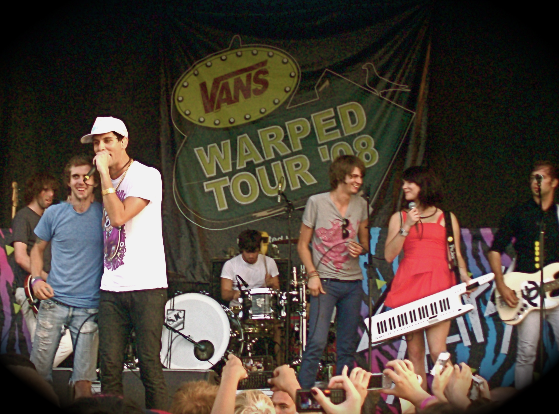 Cobra Starship at Warped Tour 08' in San Diego (feat. William Beckett)